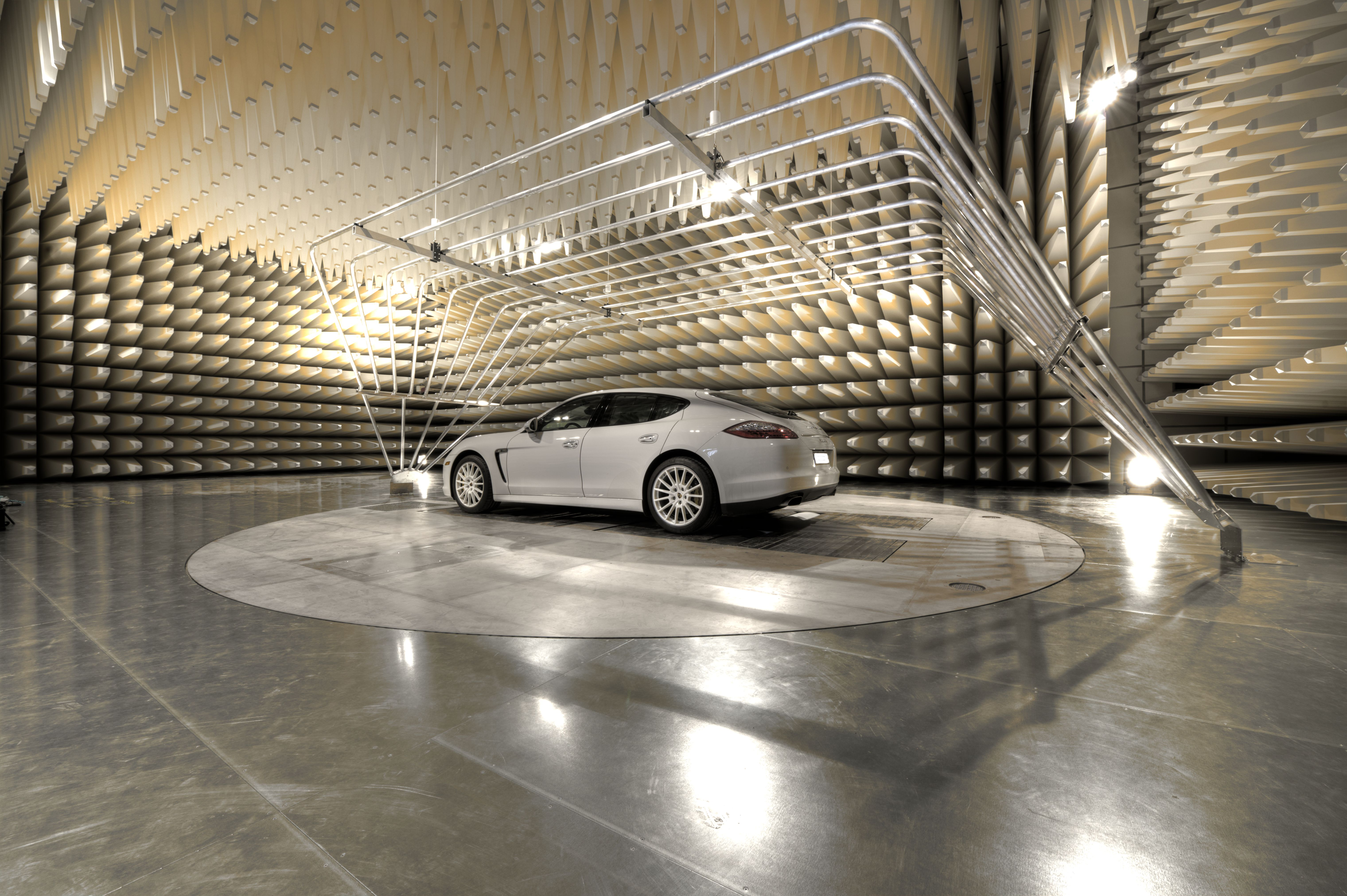 This file shows a Porsche in a room equipped with the new microwave absorbers